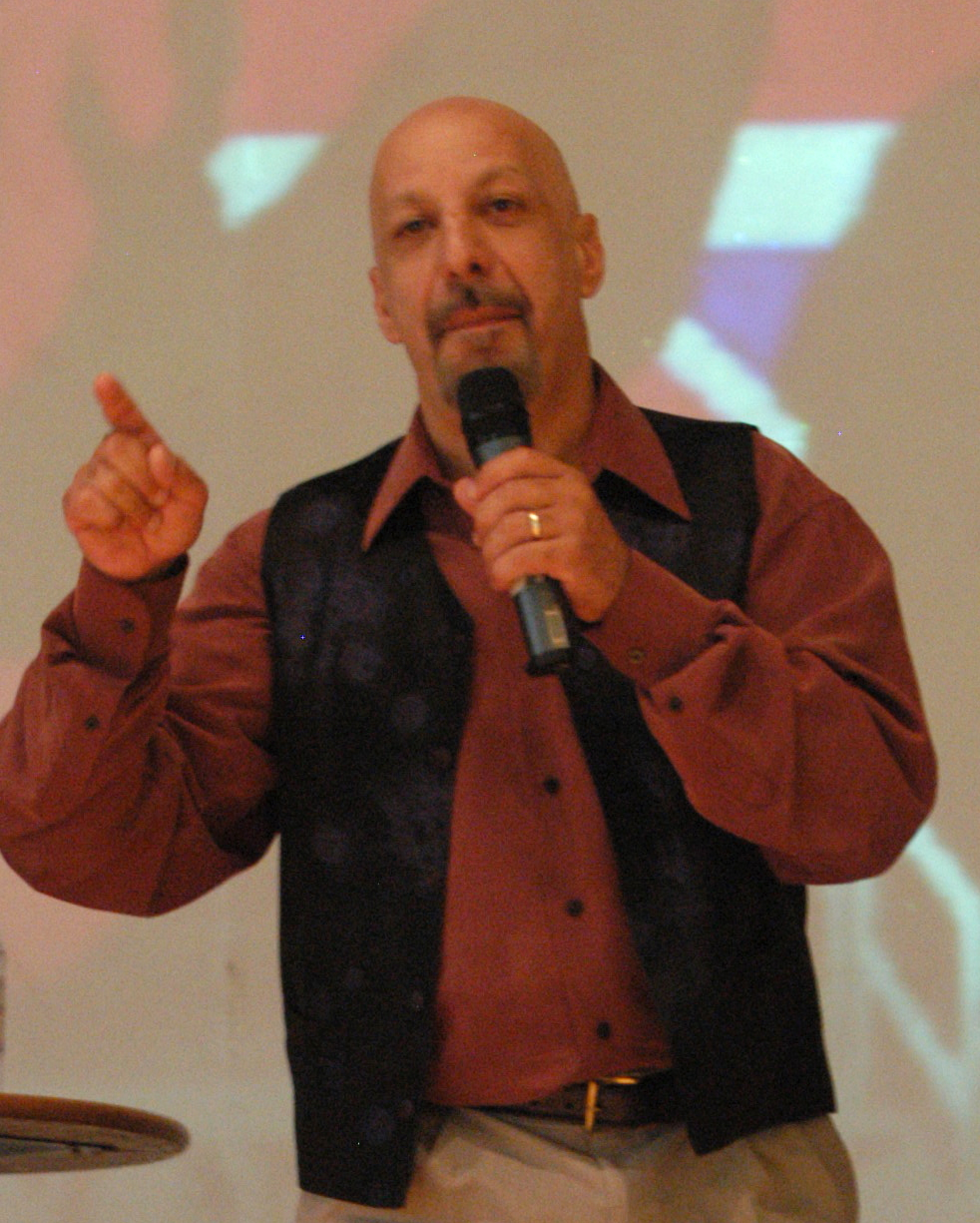 Actor Erick Avari at Gatecon 2006 in Cheltenham, UK in August 2006